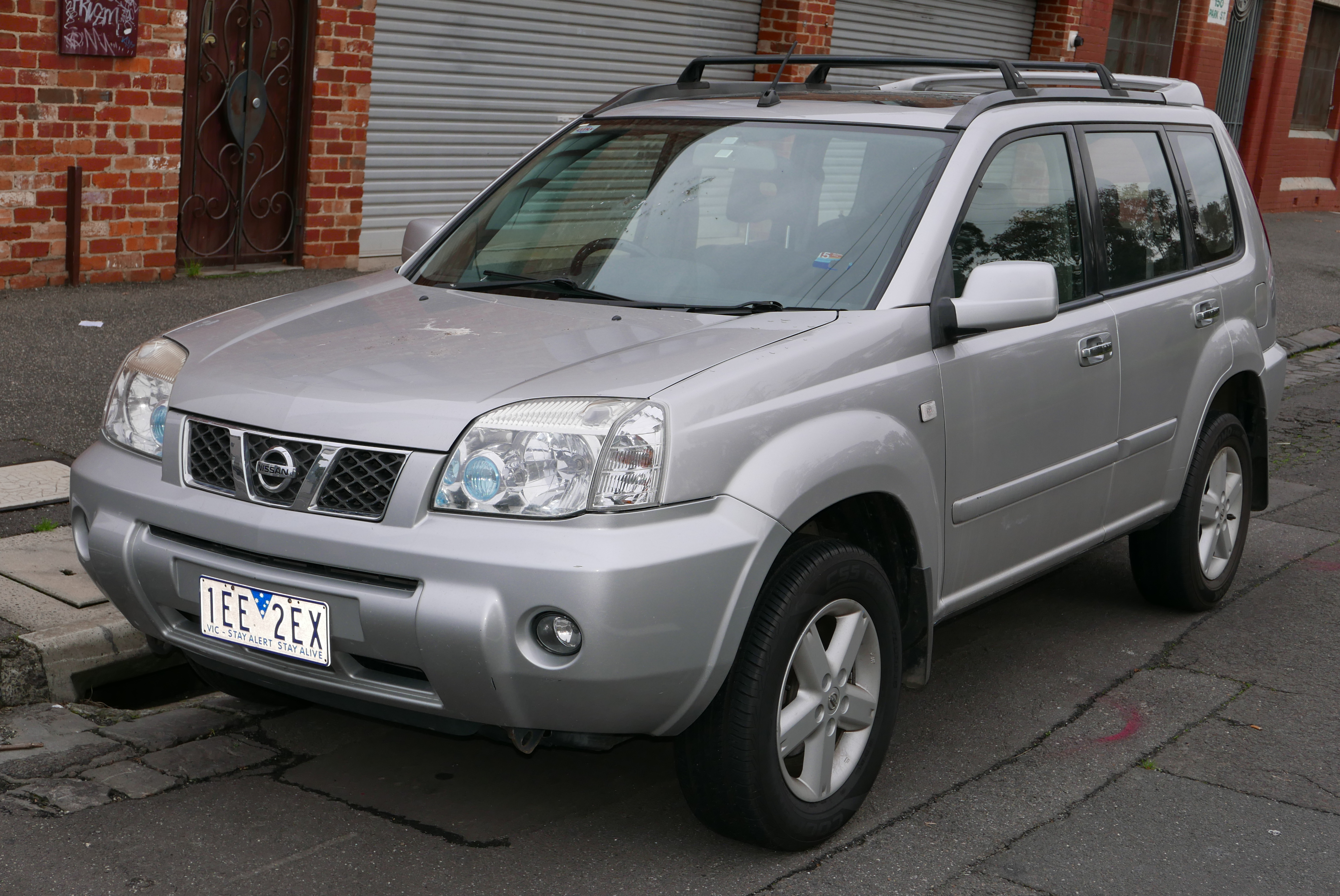 2006 Nissan X-Trail (T30 II) Ti-L wagon. This is the version of the Ti-L fitted with the sunroof pack. T30 II versions of the X-Trail Ti-L in Australia were not badged "Ti-L", but rather retained the "Ti" badge from the actual Ti models. The Ti-L variants added over the Ti, leather trim and power front seats plus the choice of an electric sunroof or rear seat DVD system with 8-inch screen and infra red headphones. The two packages were titled Ti-L with "Rear Seat Entertainment" (RSE) pack and Ti-L with "Electric Sunroof" (ESR) [1]. Photographed in Fitzroy North, Victoria, Australia. Vehicle registration enquiry results Jurisdiction Victoria Registration 1EE2EX Chassis code JN1TBNT30A0200817 Engine code QR25349943A Compliance date 2006-02 Year of manufacture 2006